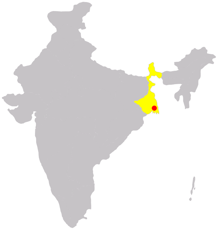 position of Calcutta in India